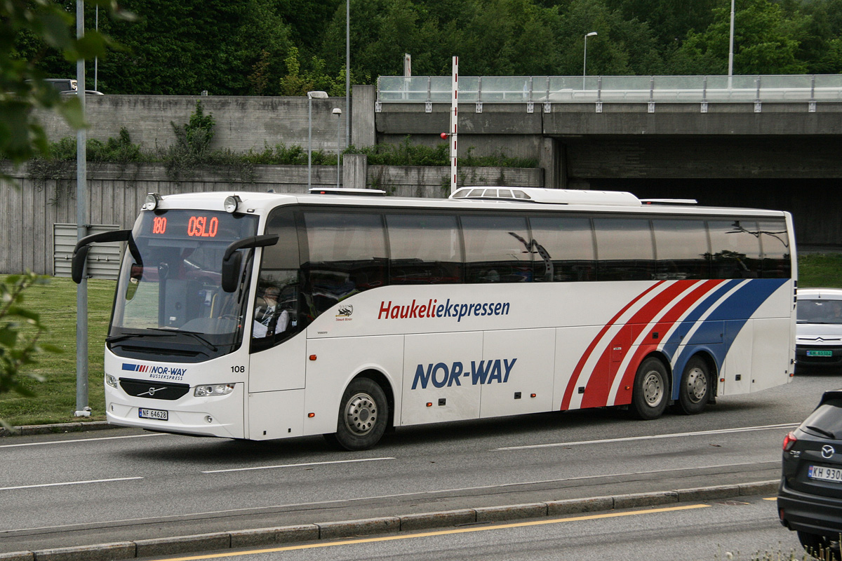 Volvo 9700HD UG in the colours of NOR-WAY Bussekspress.